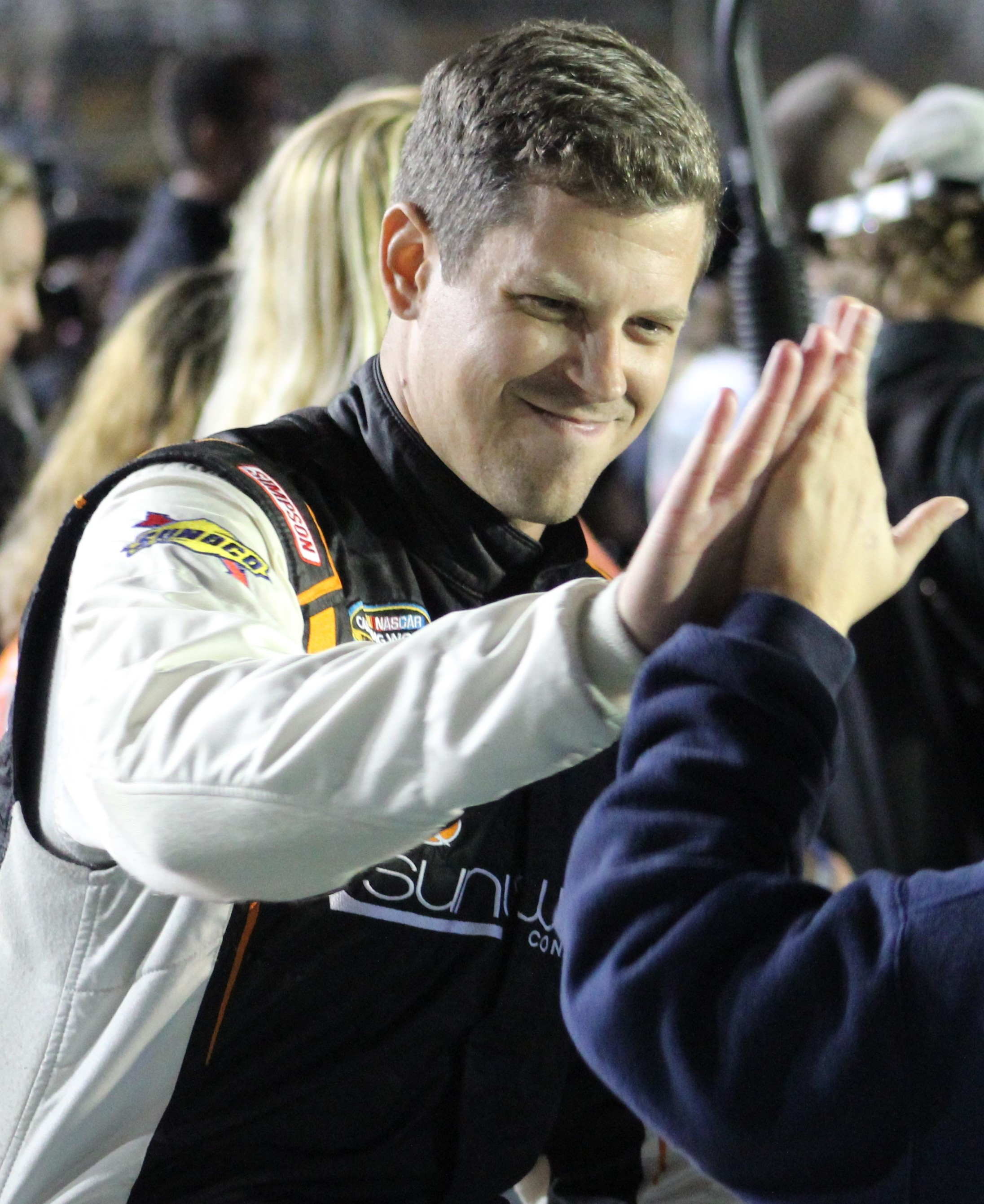 Robby Lyons giving a young fan a high-five at Homestead–Miami Speedway in 2018